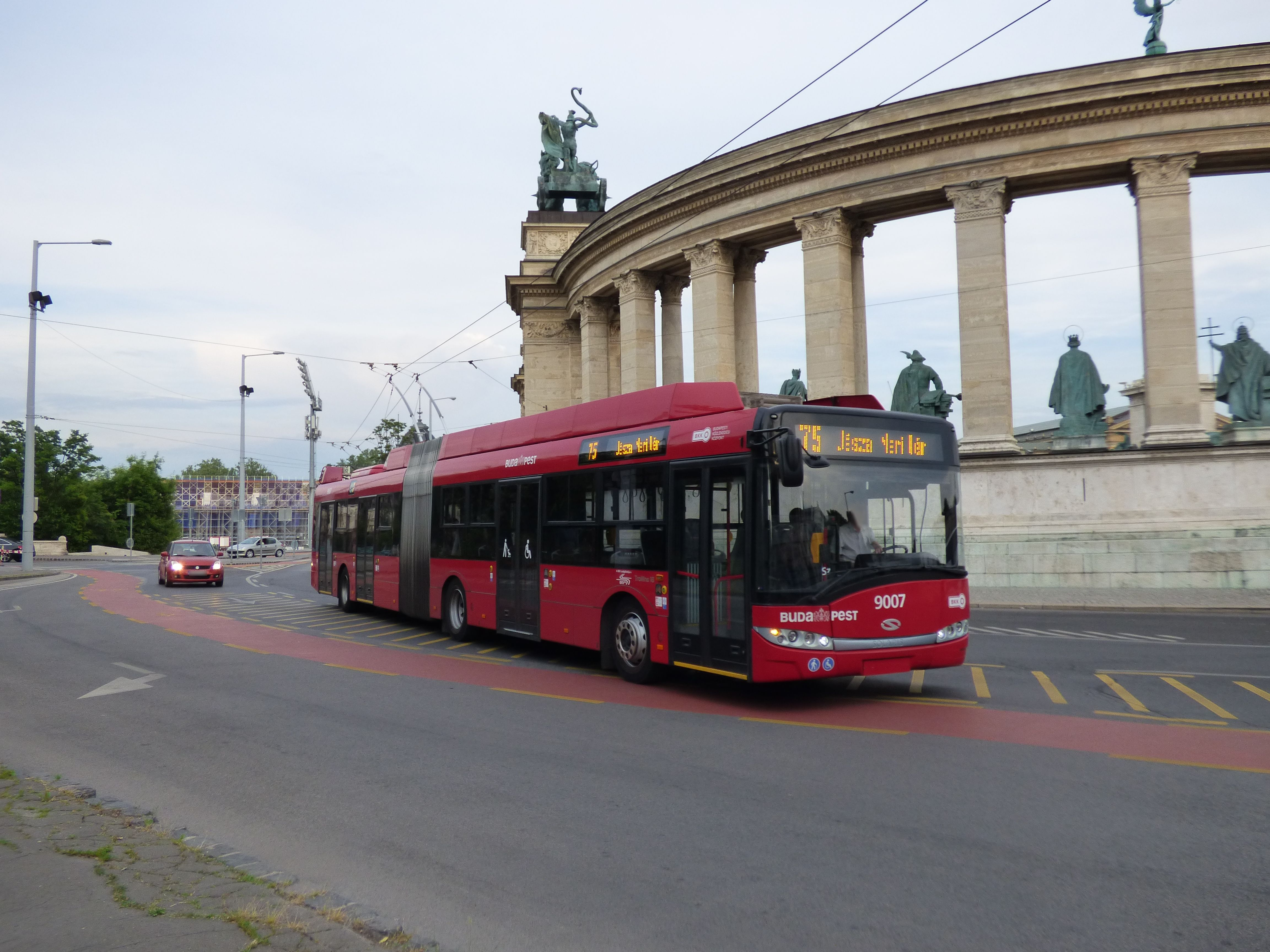 Škoda-Solaris Trollino 18 (cn. 9003), trolleybus no. 75, Budapest, Heroes' Square